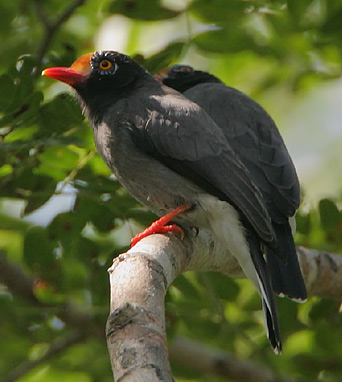 A rather bizarre-looking range-restricted Helmet-Shrike which moves around in extended family parties; these clans often join up with other species to form mixed-species feeding groups. Image taken in Arabuko-Sokoke Forest, Coastal Kenya (subspecies kirki)..